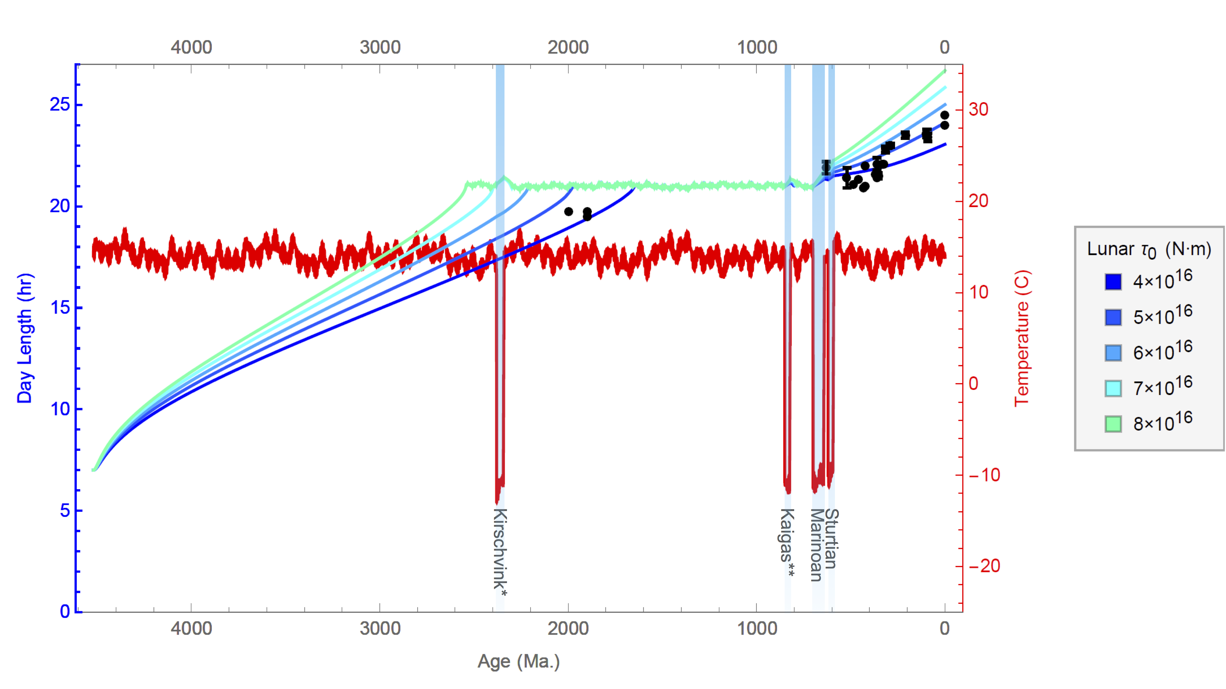 This plot depicts the simulated evolution of Earth's day length over time for varying choices of lunar torque τ0 (shown in blue and green) and temperature values (red) over the lifetime of the Earth. Resonant-stabilizing effects are present from 600 Ma. to 1800-2600 Ma., depending on the choice of lunar torque. Note that atmospheric thermal noise does not influence the day length except very near resonance, and that the resonant effect remains unbroken through this noise until two successive simulated snowball events at the end of the Precambrian 720 Ma and 640 Ma, corresponding to recent estimates of the Sturtian and Marinoan glaciations [Rooney et al., 2014]. Recapture events can be seen at 870 Ma following the “Kaigas glaciation” and, for some values of τ0, following a Paleoproterozoic glaciation detailed in Kirschvink et al. [2000]. Approximate empirical day length data from a compilation in Williams [2000] are overlaid in black (error bars included where present) and resemble the simulated results, though the reader should not take this data to be too reliable, particularly the data points prior to 600 Ma.